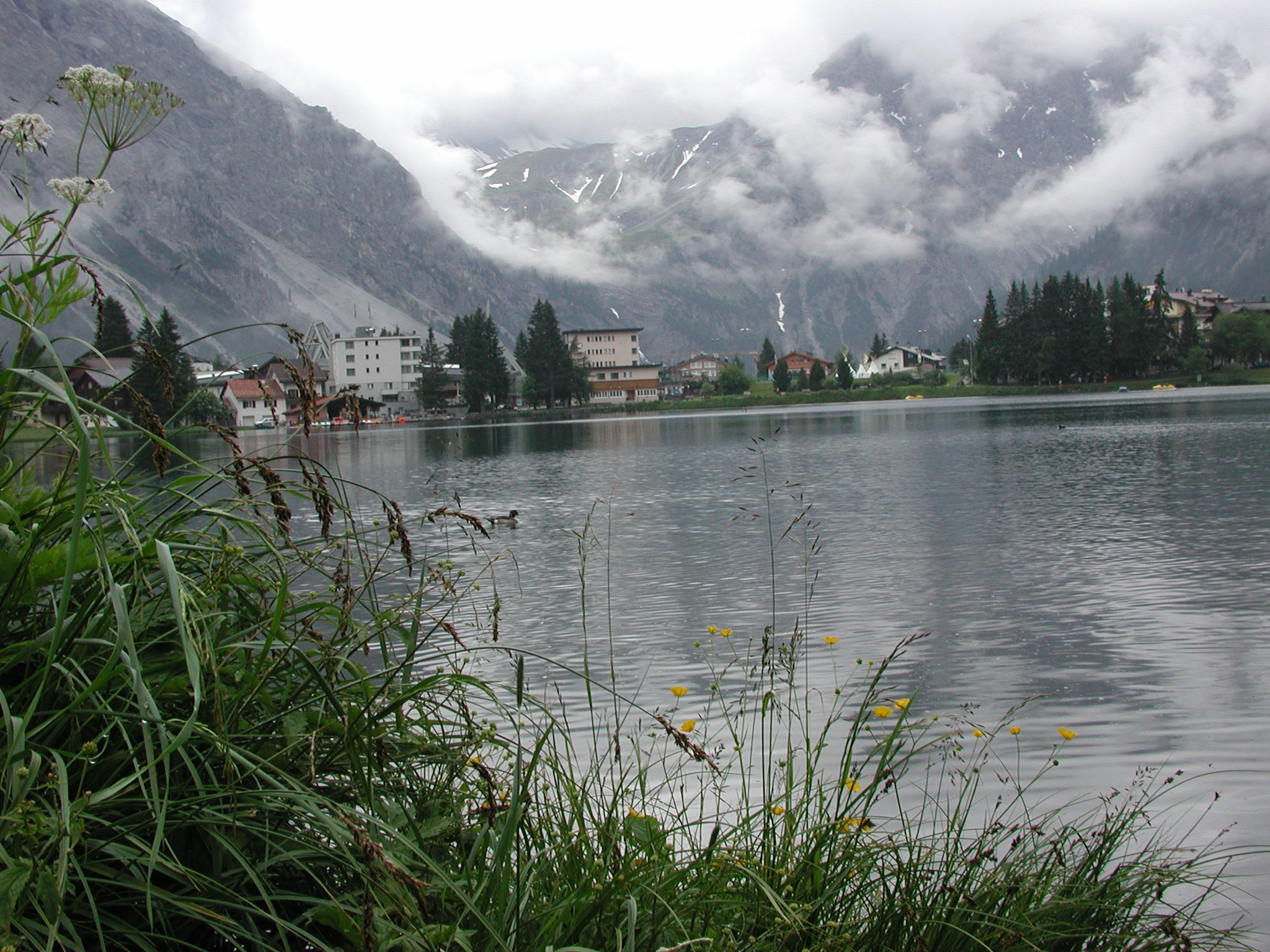 Obersee, Arosa, Switzerland